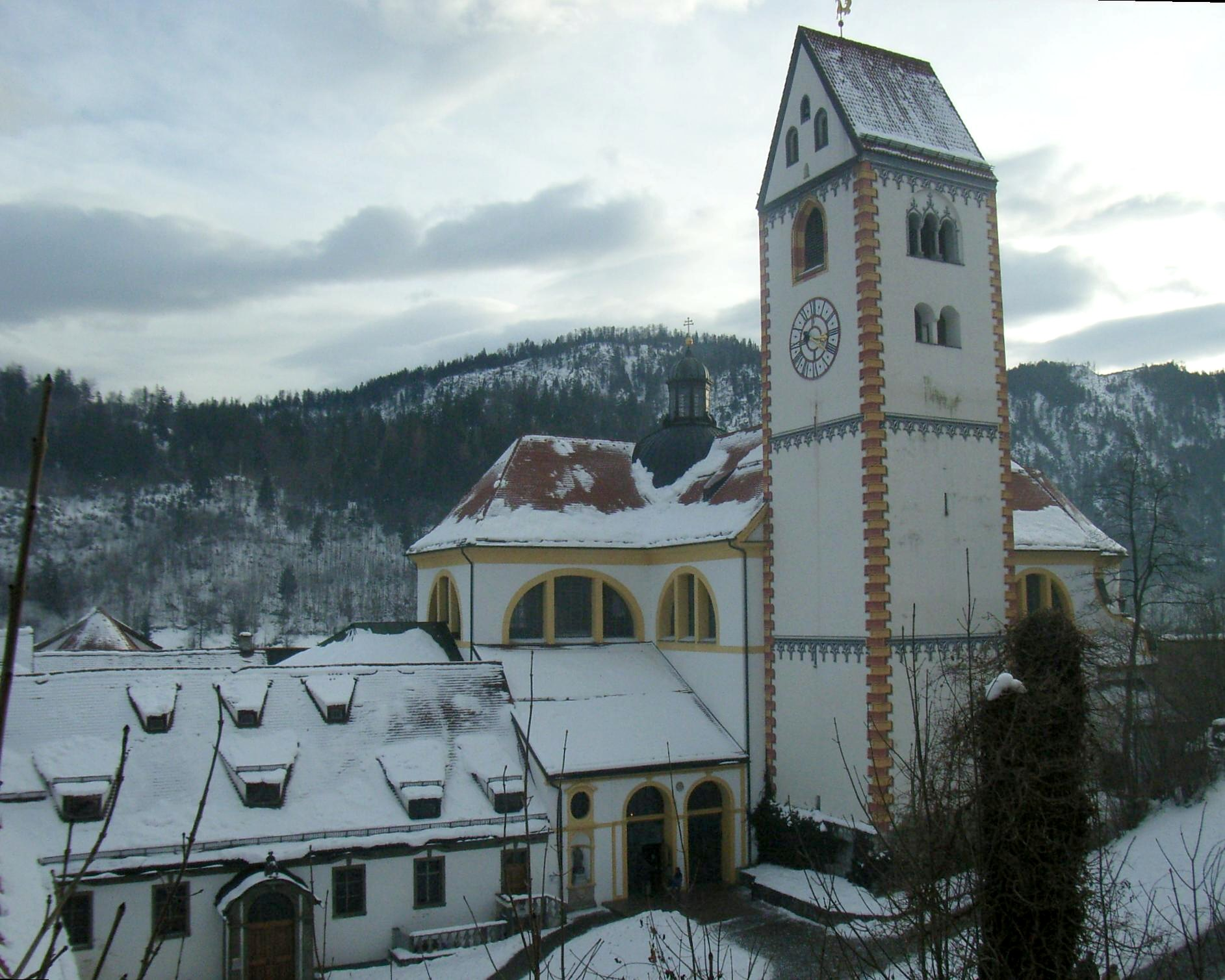 St. Mang's Abbey, Füssen, exterior view